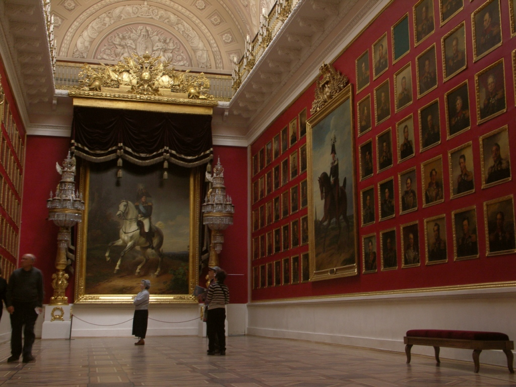 Photo taken inside the Hermitage Museum in St Petersburg by Robert Broadie on 12 April 2005. It is the Hall of Military Fame, inaugurated in en:1825 and containing the portraits of all Russian generals who took part in the Patriotic War against Napoleon in en:1812. For individual portraits in this gallery click here, here, or here. This image is also available on Wikimedia Commons, here.